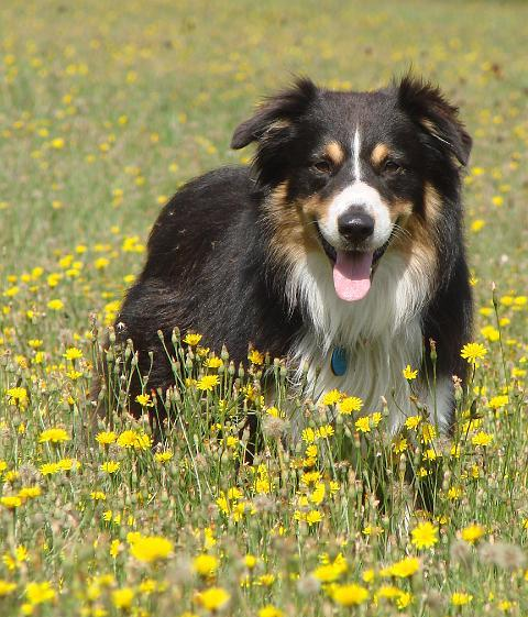 A black tricolour Australian Shepherd